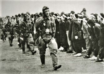 Lieutenant Matsui and tetsusintai Pilot